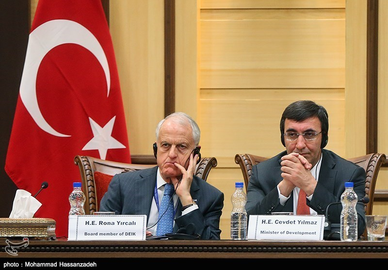 Turkish businessman Rona Yırcalı and Turkish politician Cevdet Yılmaz